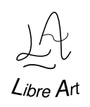 Libre art logo with script png version